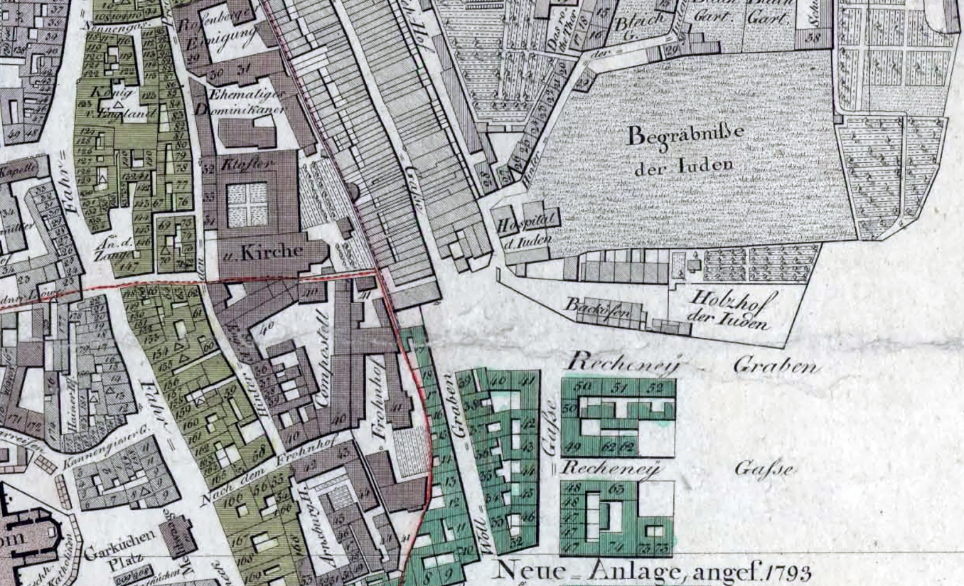 Crop of historical map of 1862, city of Frankfurt am Main, Hesse, Germany, focus on old jewish cemetery from 1180, Judengasse, Judenmarkt